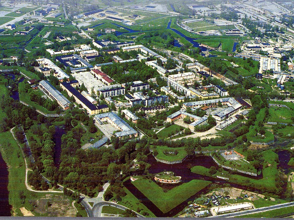 Daugavpils Fortress from above